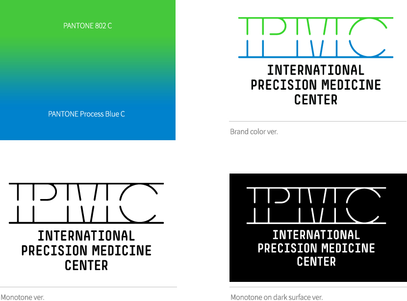 IPMC logo in brand color/monotone